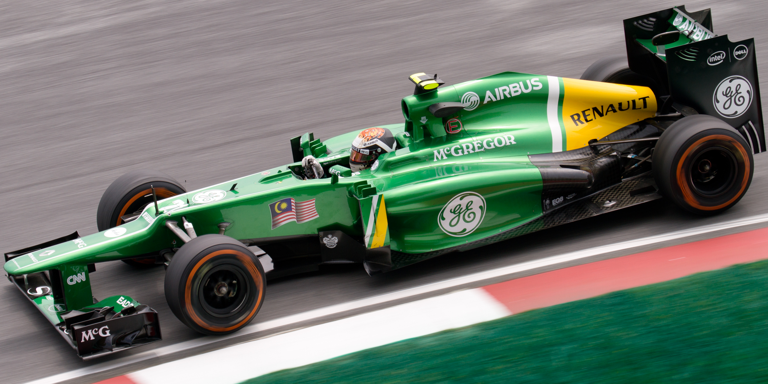 Formula One 2013 Rd.2 Malaysian GP: Giedo van der Garde (Caterham) during the first practice session on Friday.